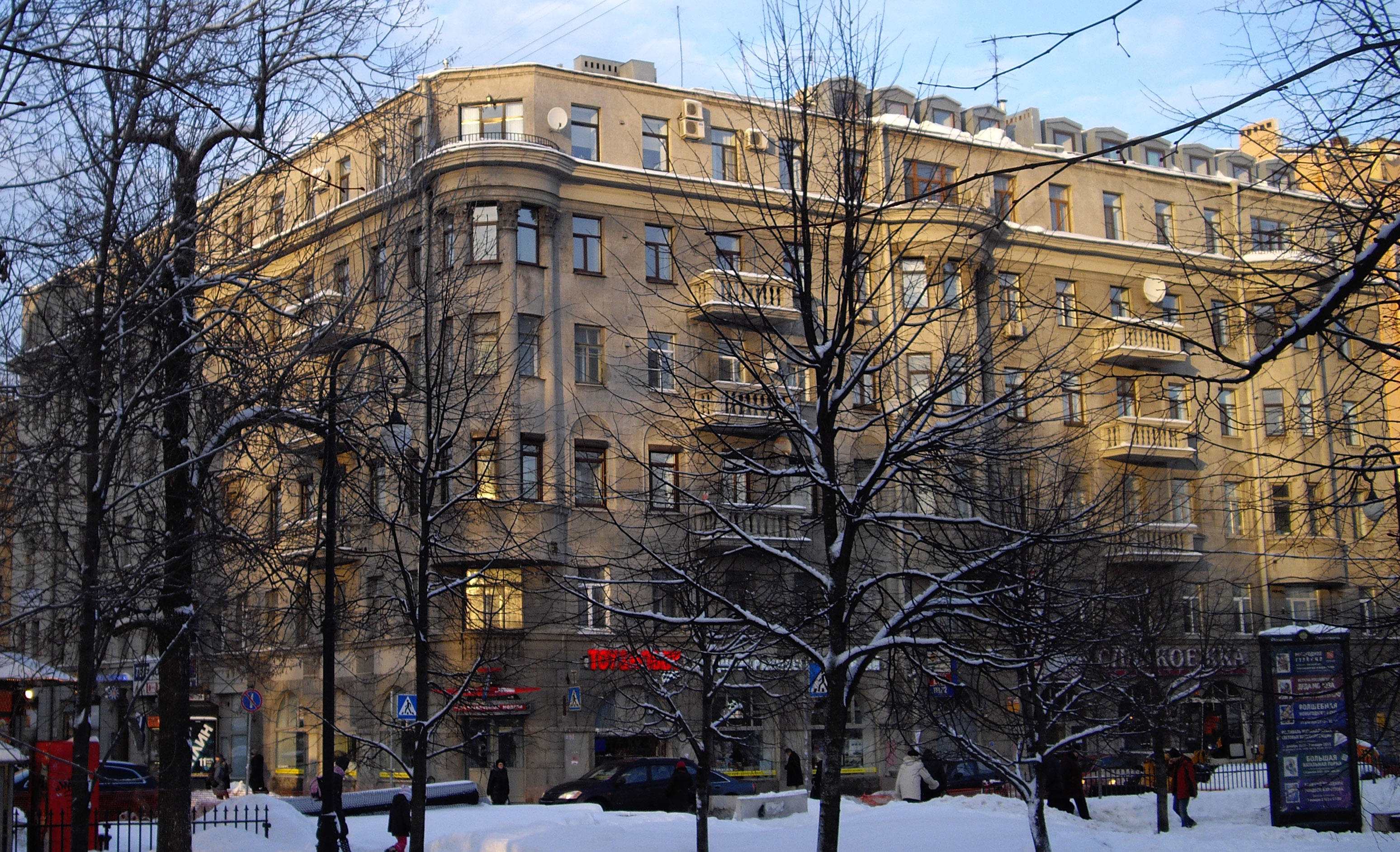 47, Kronverkskiy Prospekt, at the corner of Sytninskaya Square (Saint-Petersburg, Russia). View from Alexandrovsky Park.